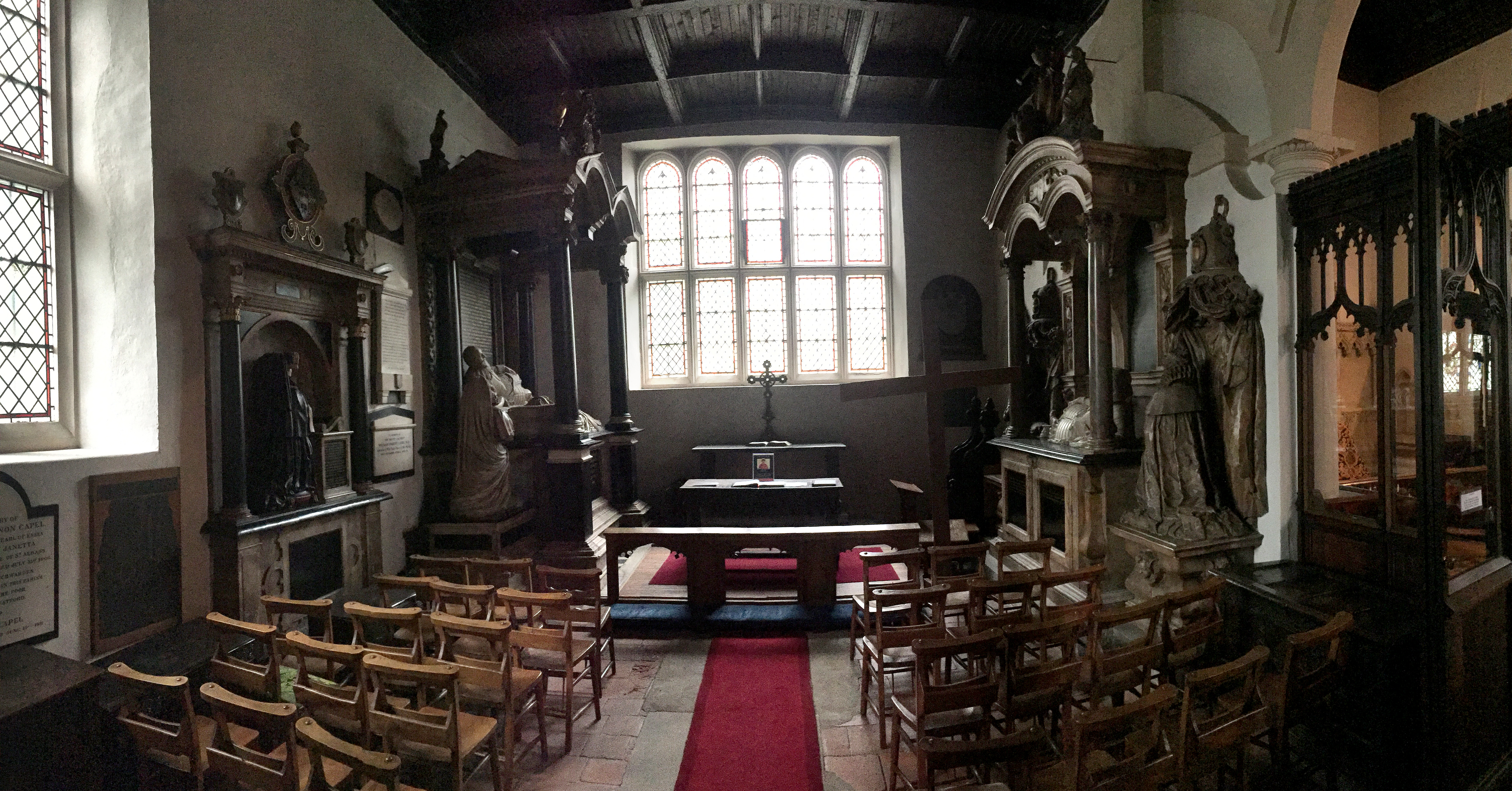 Interior of the Essex Chapel in Saint Mary's Parish church, Watford, Hertfordshire. Right: the tomb of Sir Charles Morison the elder (1549-1599). Left: the tomb of Sir Charles Morrison the younger (1587–1628)